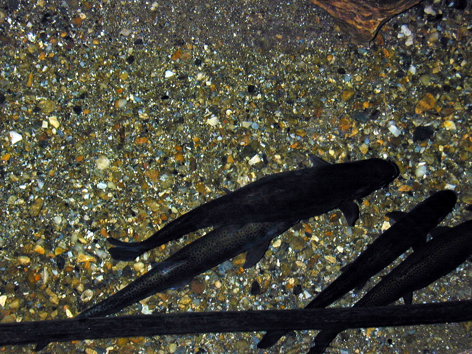 Blind trouts in Linville Caverns, North Carolina